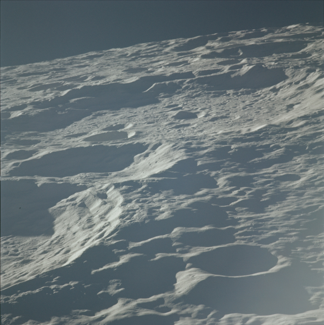 Oblique view of Anderson above center, facing west. Part of Sharonov is visible in lower left.